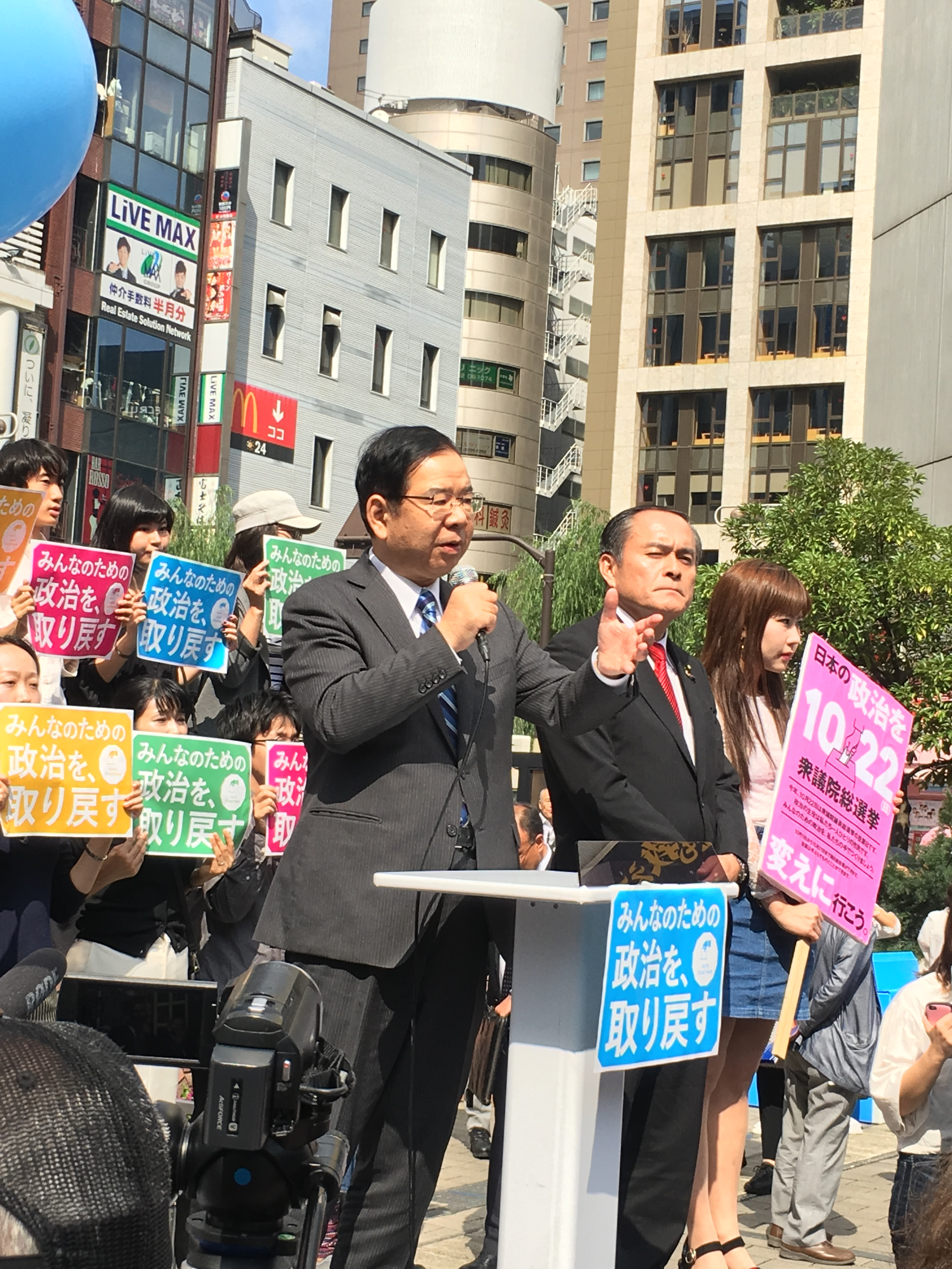 Kazuo Shii at SL Square of Shimbashi Station, Tokyo in October 8, 2017. The right is Tadatomo Yoshida and Yukino Baba.